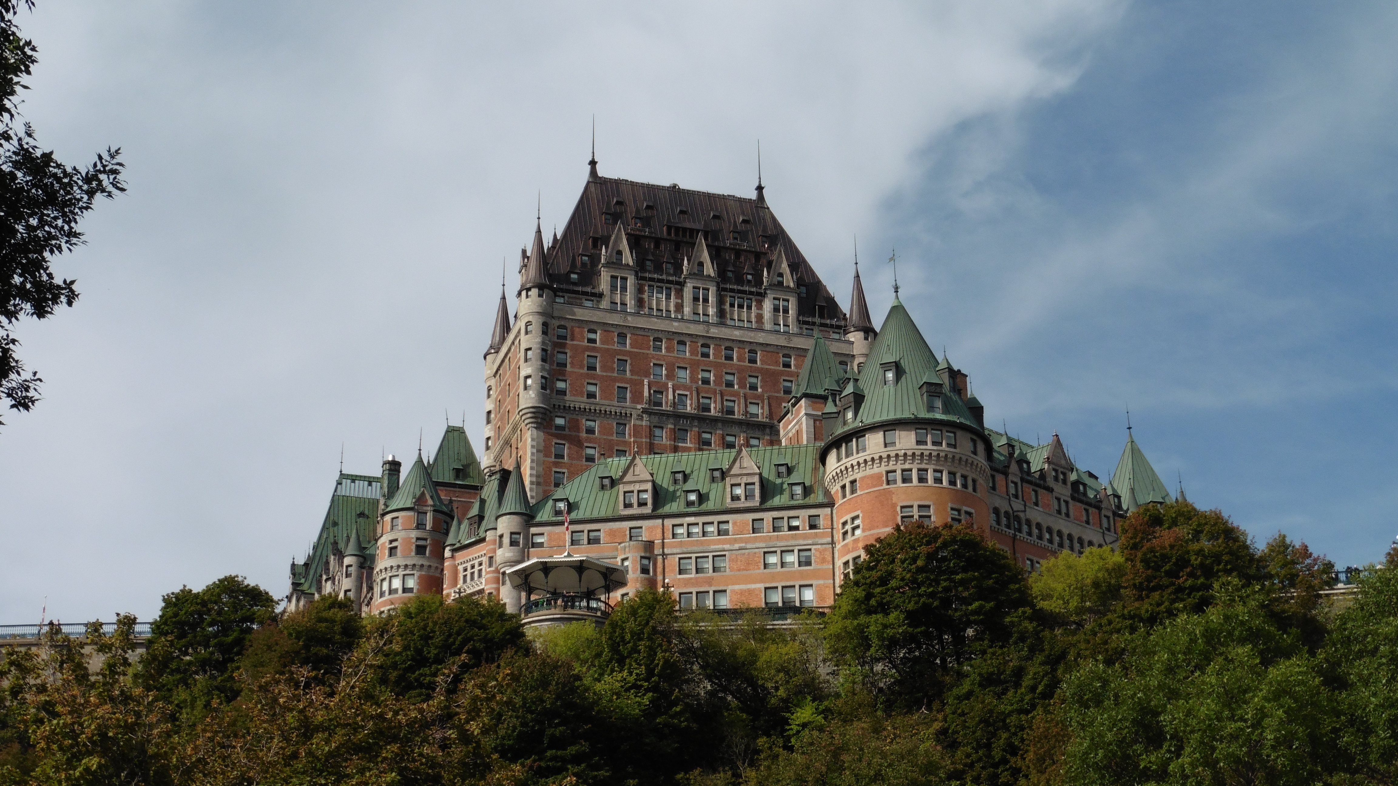 Chateau Frontenac, Quebec City